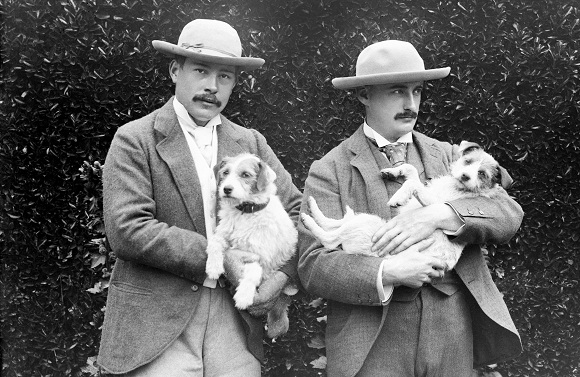 Edward Reeves (1824-1904)/Edward Reeves Photographer. Ned Warren and John Marshall, 1895